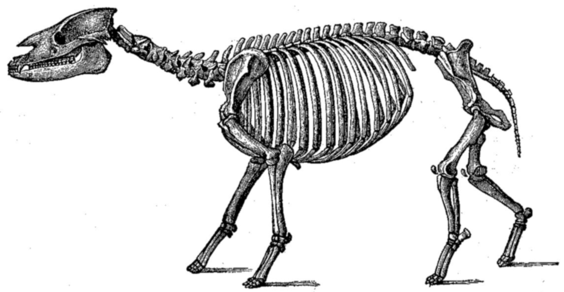 Palaeotherium magnum